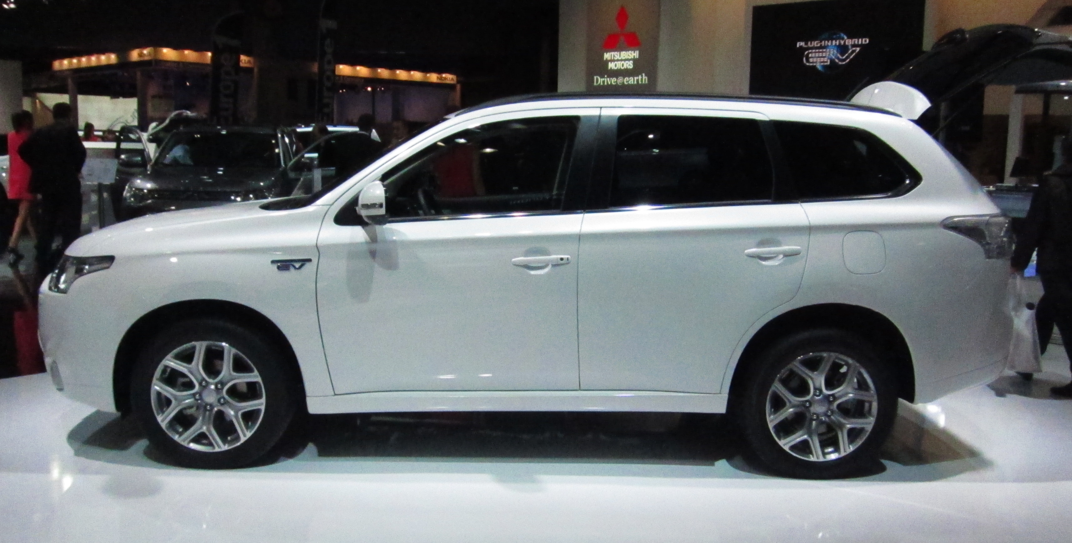 Mitsubishi Outlander PHEV (Plug-in Hybrid) at Mondial de l'Automobile Paris 2012